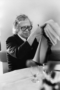 Alan Lévy